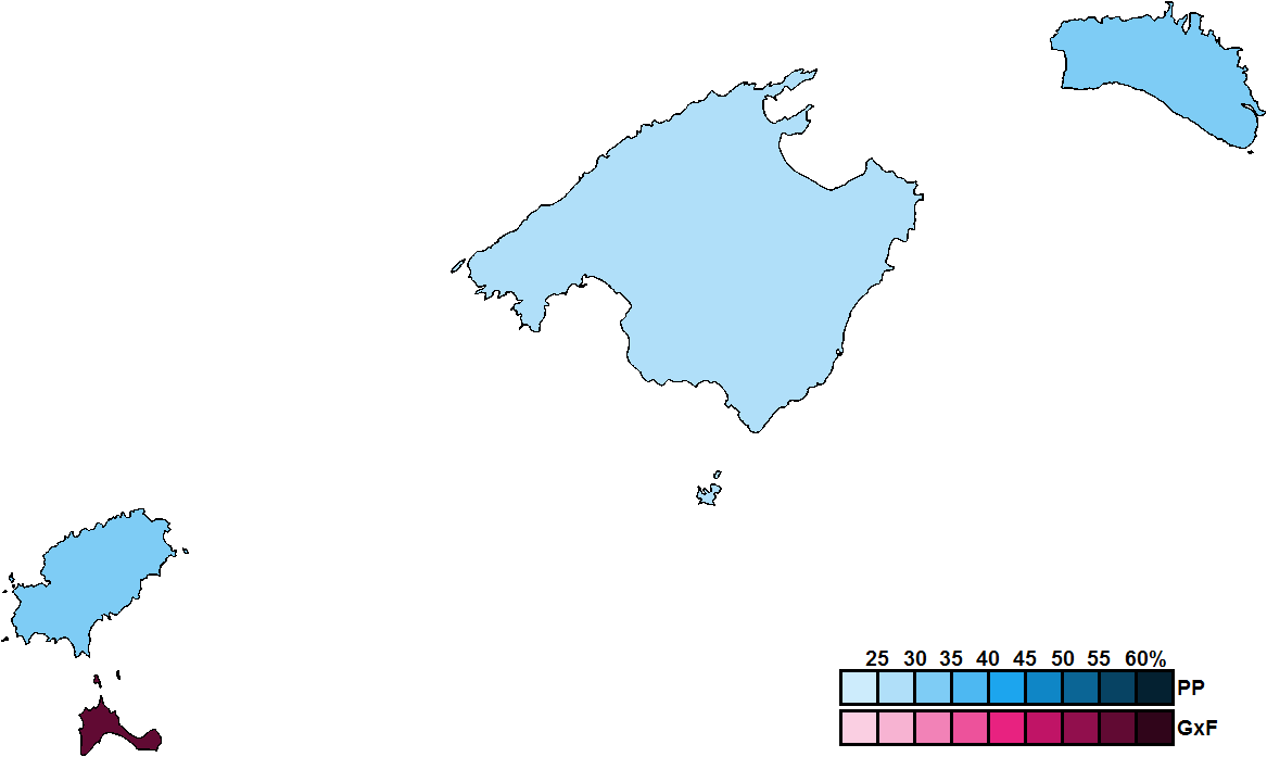 District results for the 2015 Balearic regional election.